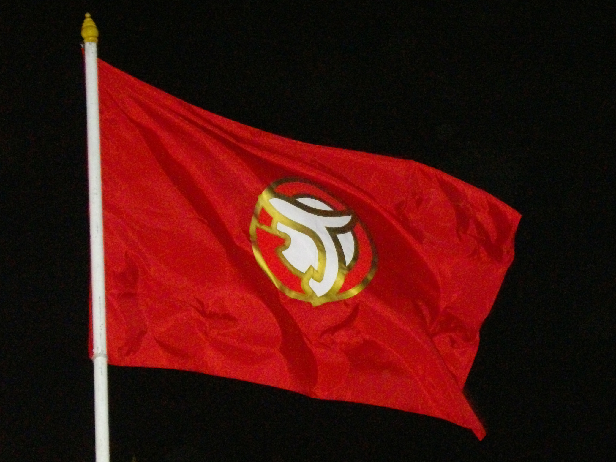 Royal flag of Princess Ubolratana Rajakanya, Princess of Thailand.